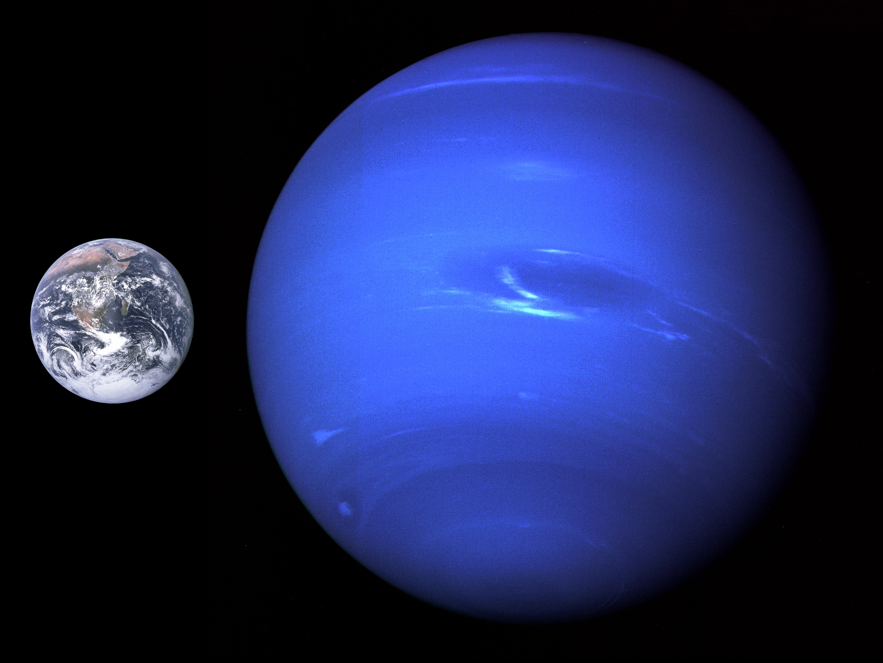 Diameter comparison of Neptune and Earth.